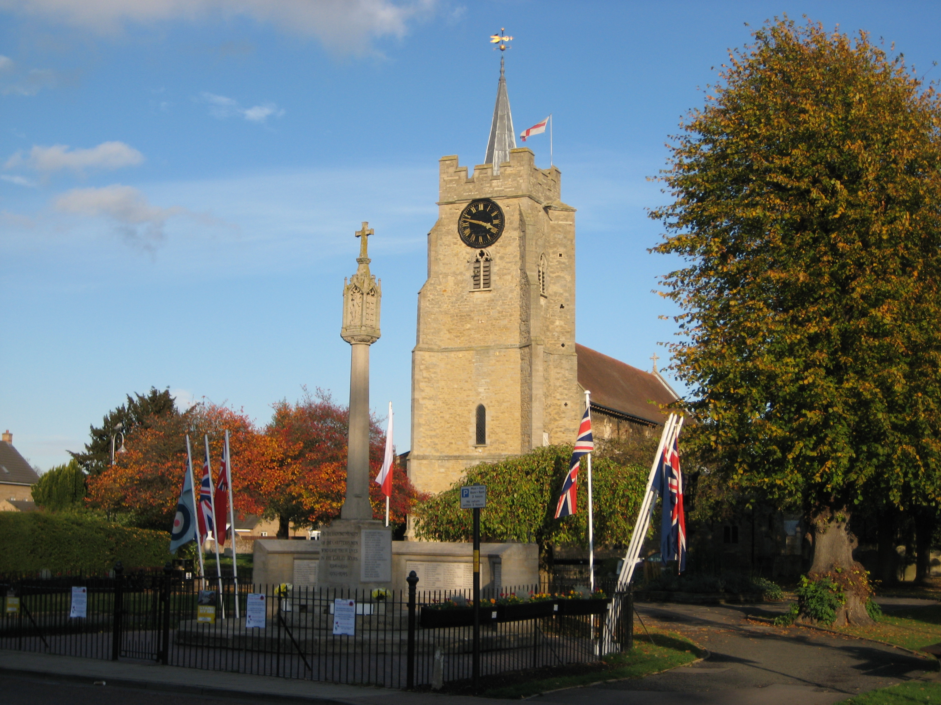 St Peter & St Paul's church, Chatteris, Cambridgeshire. The war memorial in the foreground has been prepared for Remembrance Sunday.